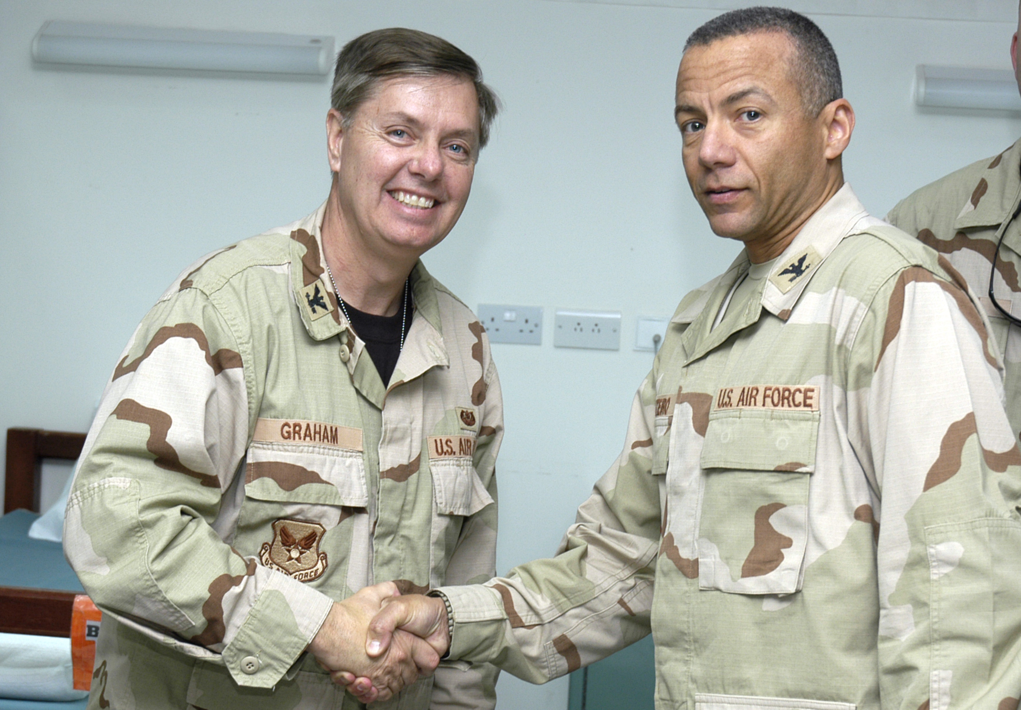 SOUTHWEST ASIA -- Col. Lindsey Graham, a Senior Senator from South Carolina, is presented a 386th Expeditionary Medical Group coin by Med. Group Commander Col. Andrew Monteiro in the Contingency Air Medical Staging Facility here on the Rock on April 9, 2007. Col. Graham, a Reserve Judge Advocate, recently spent 2 days in Iraq with Senator John McCain, then another7 days as a JA with the Multinational Force, Iraq. (AF photo/Staff Sgt. Ian Carrier)